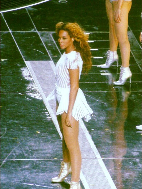 Beyoncé Knowles performing in Bercy during The Mrs. Carter Show World Tour